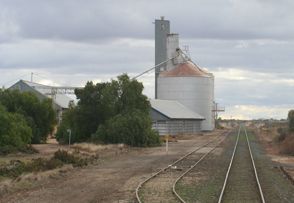 Silos on the Swan Hill line at the 330 KM post from Melbourne. Victoria, Australia